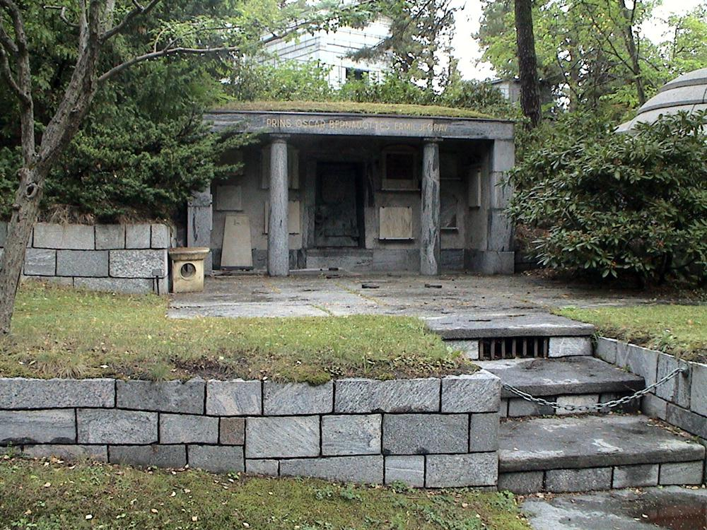 Family grave of Prince Oscar of Sweden and Norway, a.k.a. Oscar Bernadotte, at Northern Cemetery of StockholmPlace: Solna, Sweden. Architect: Gunnar Asplund (1921)